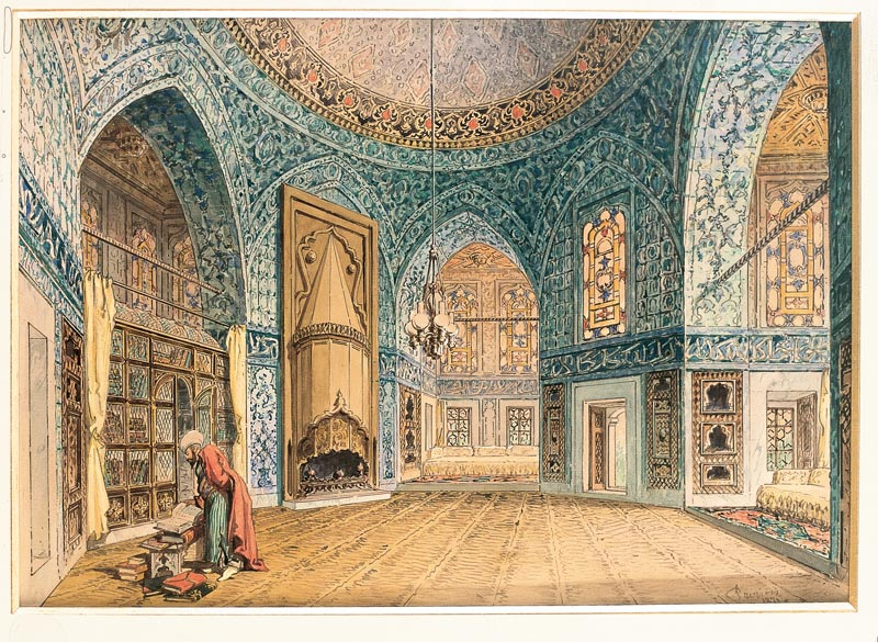 Istanbul interior of the harem Watercolour, Ottoman Empire